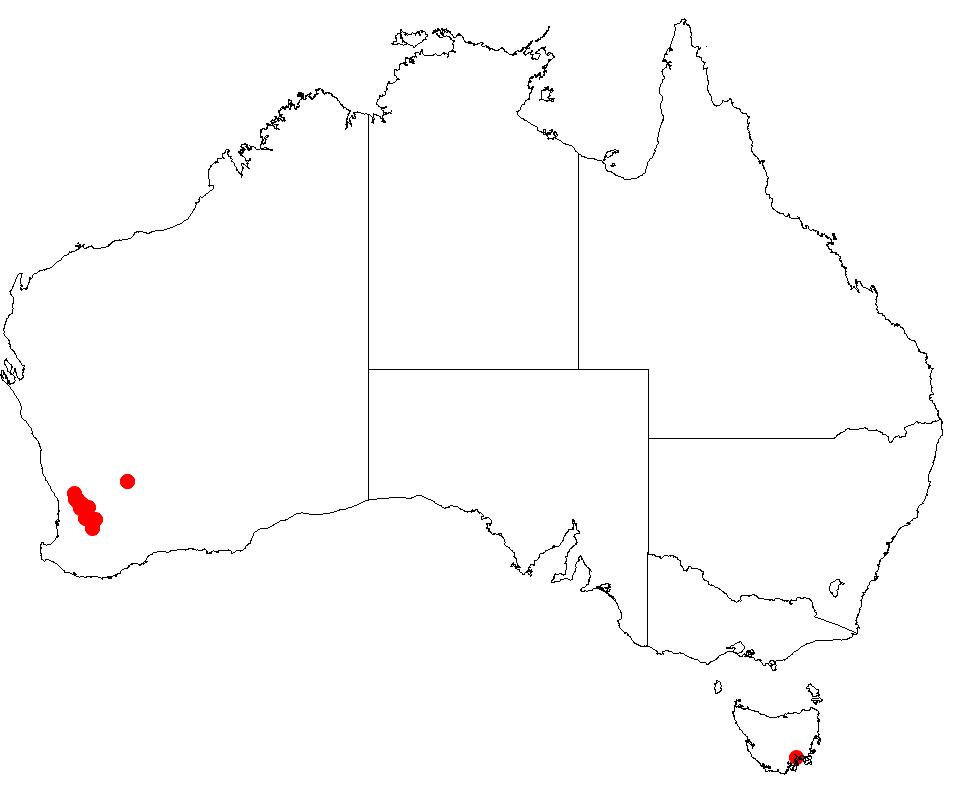 Hakea loranthifolia Occurrence data downloaded from Australasian Virtual Herbarium on 22 November 2018 using